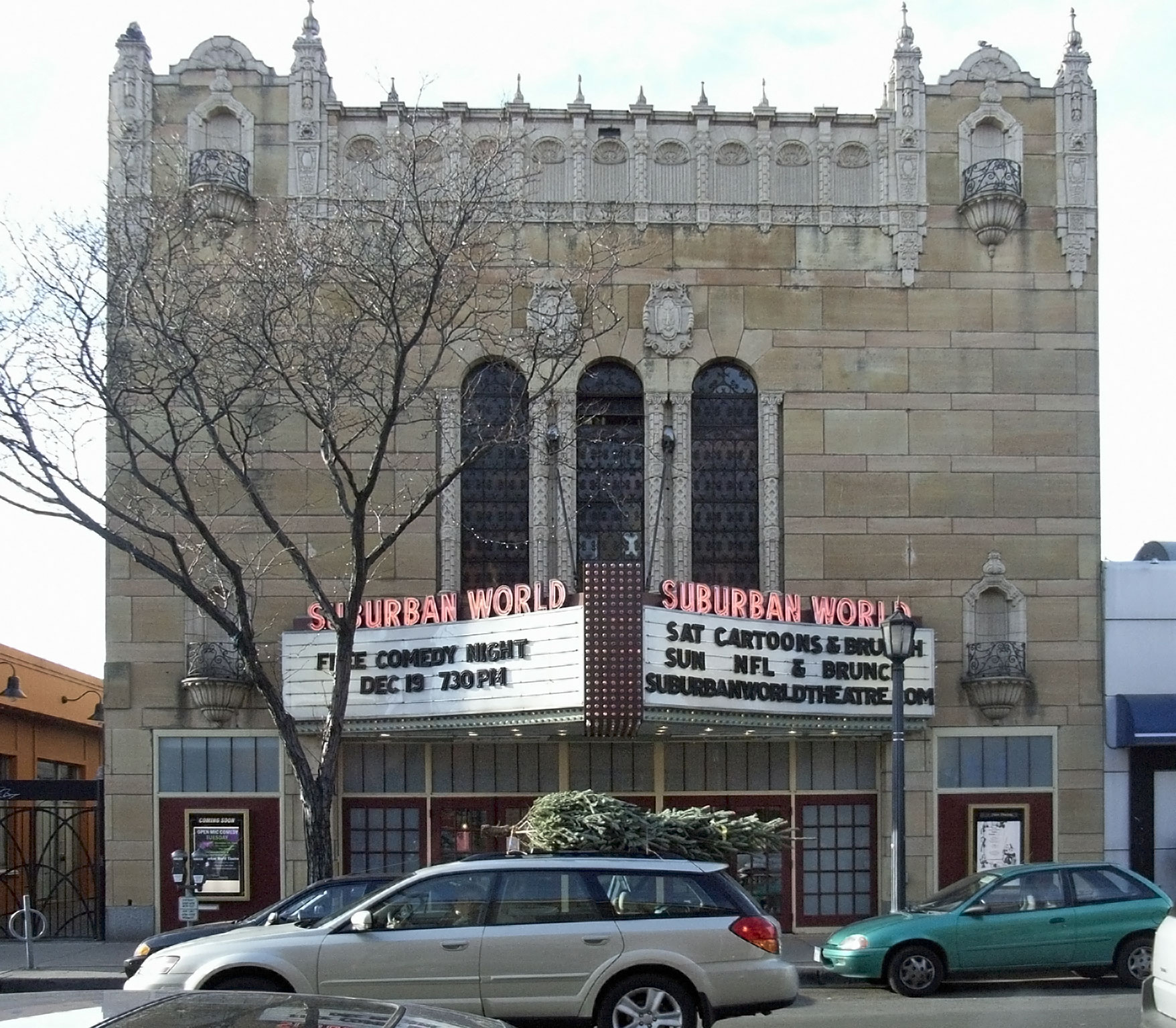 The former Suburban World Theater on Hennepin Avenue between Lake and 31st Streets. Uptown, Minneapolis, Minnesota, USA. Flickr description: Sounds like... well, I don't know what it sounds like, except an unfortunate name for a playhouse in one of the city's most urban neighborhoods (albeit just a streetcar suburb). The Subaru wagon with Xmas tree just happened by, of course.